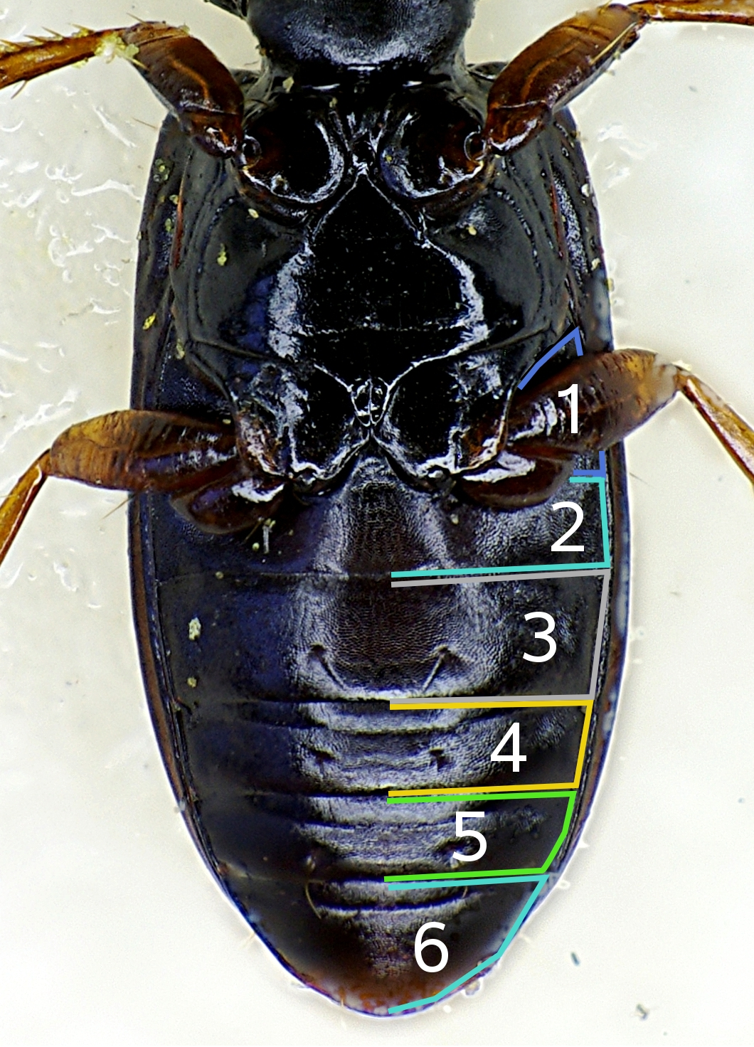 Detail of underside of Clivina fossor